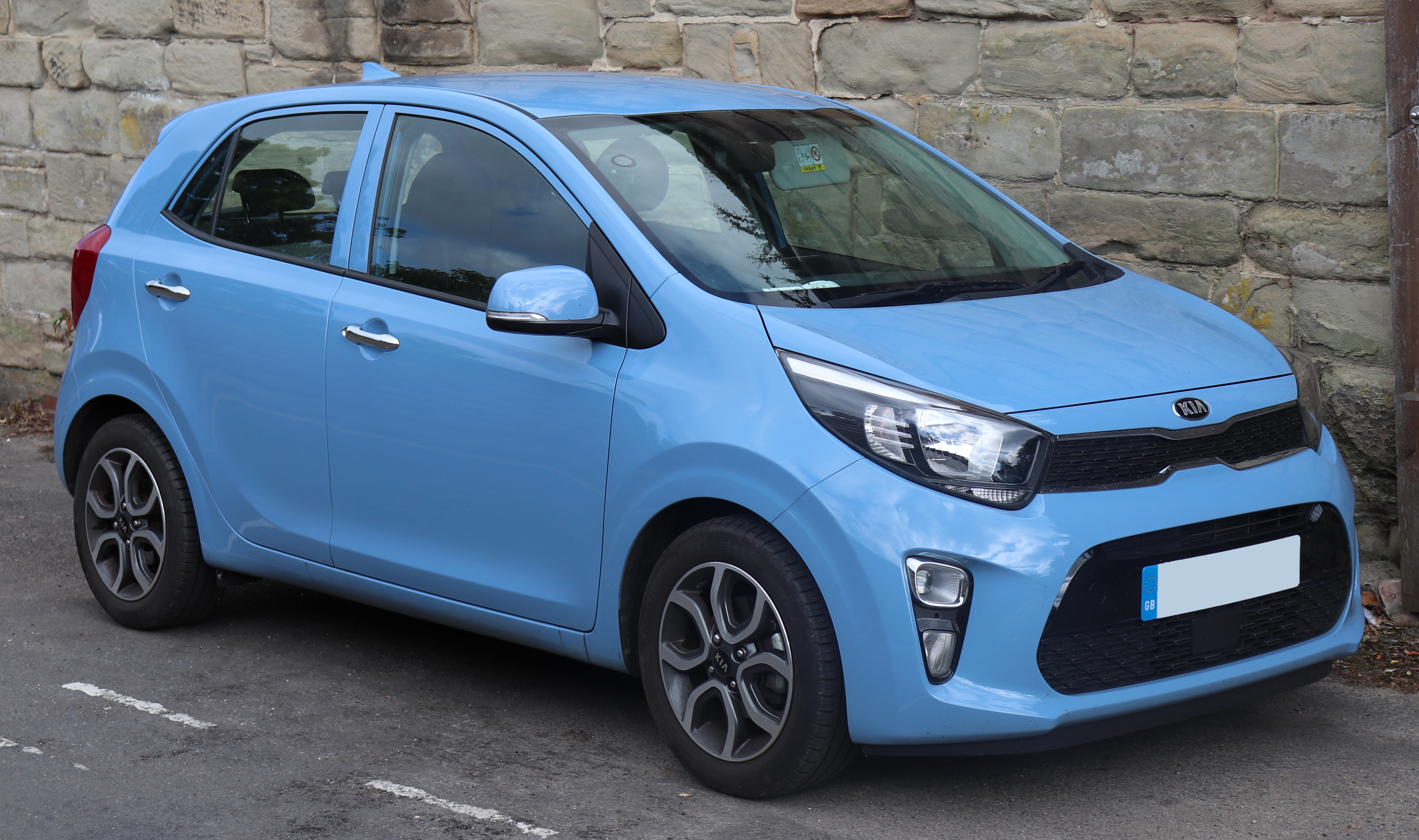 2018 Kia Picanto 3 Automatic 1.2 Front Taken in Warwick